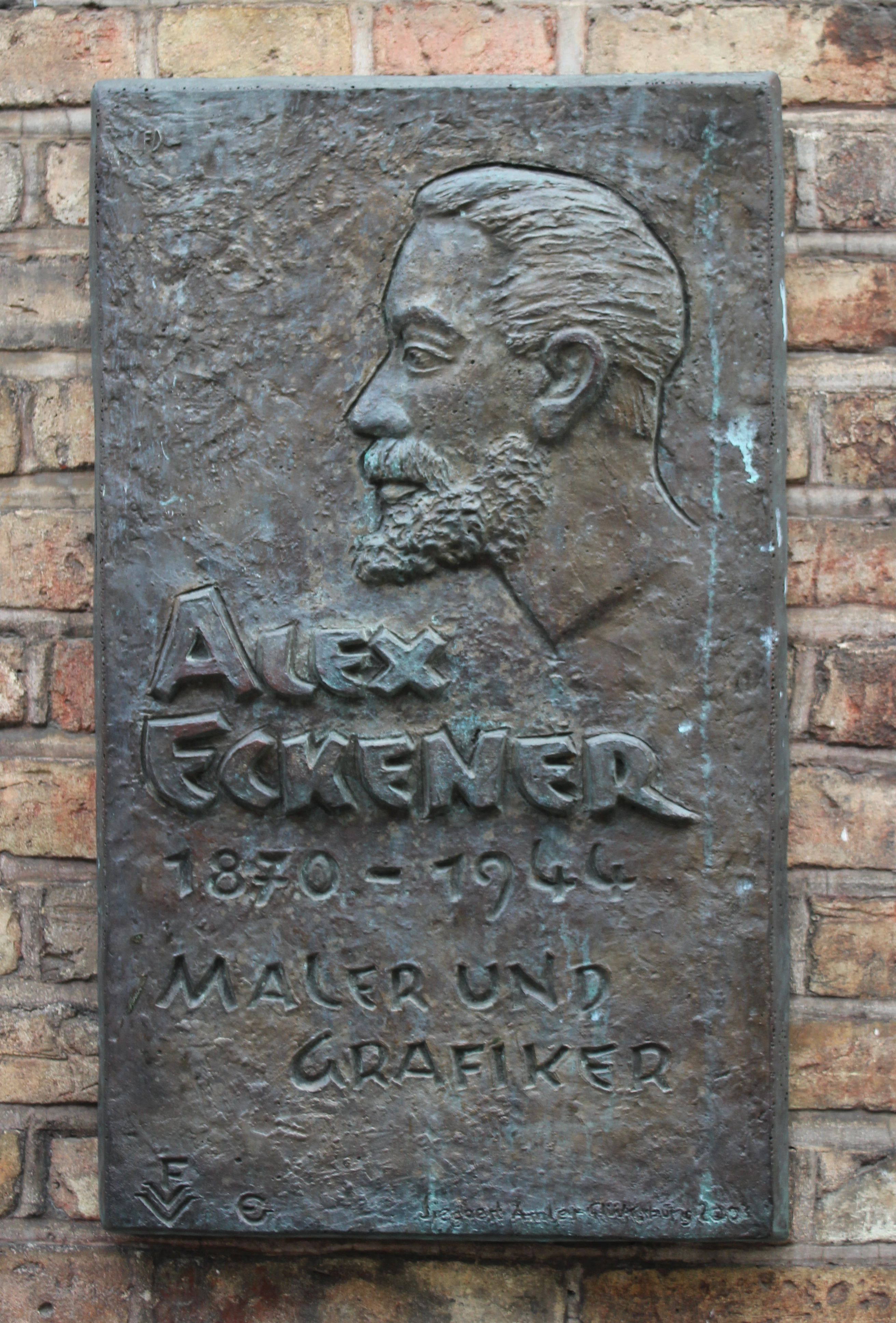 Brother of Hugo Eckener -- Memorial table on the Eckener House (Birthhouse of Hugo and Alex Eckener)